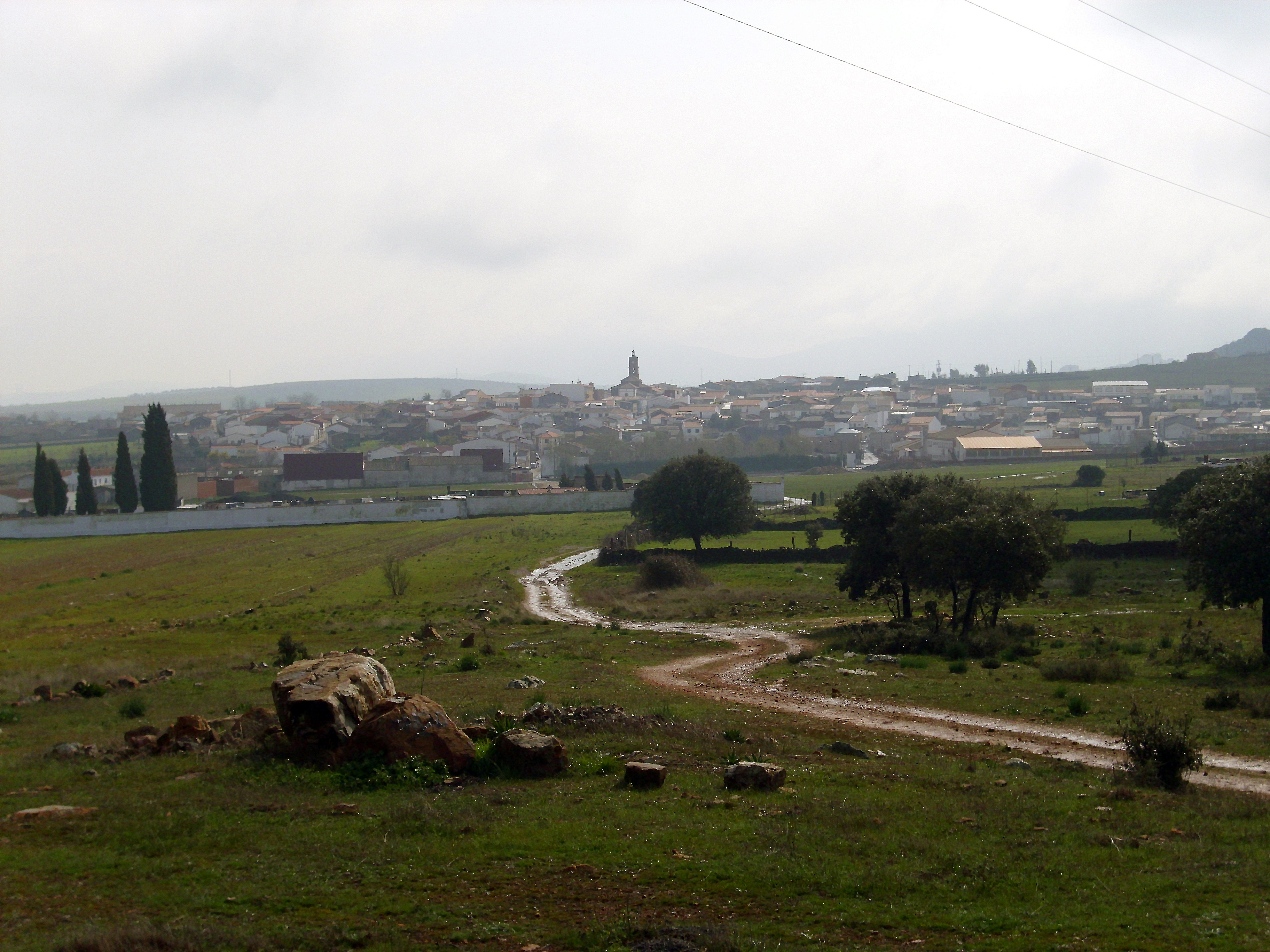 Brazatorta, Valle de Alcudia, Spain